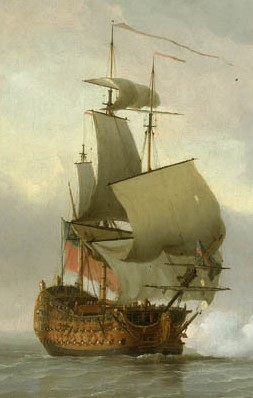 HMS Russell - The Capture of the 'Glorioso', 8 October 1747 (detail) BHC0371